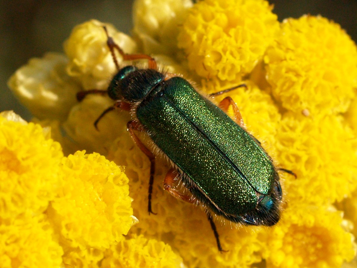 Class: Insecta. Order: Coleoptera. Suborder: Polyphaga. Infraorder: Cucujiformia. Superfamily: Tenebrionoidea. Family: Meloidae. Subfamily: Meloinae. Tribe: Cerocomini.